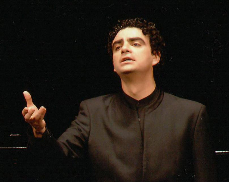 Cropped version of existing Wikimedia Commons file